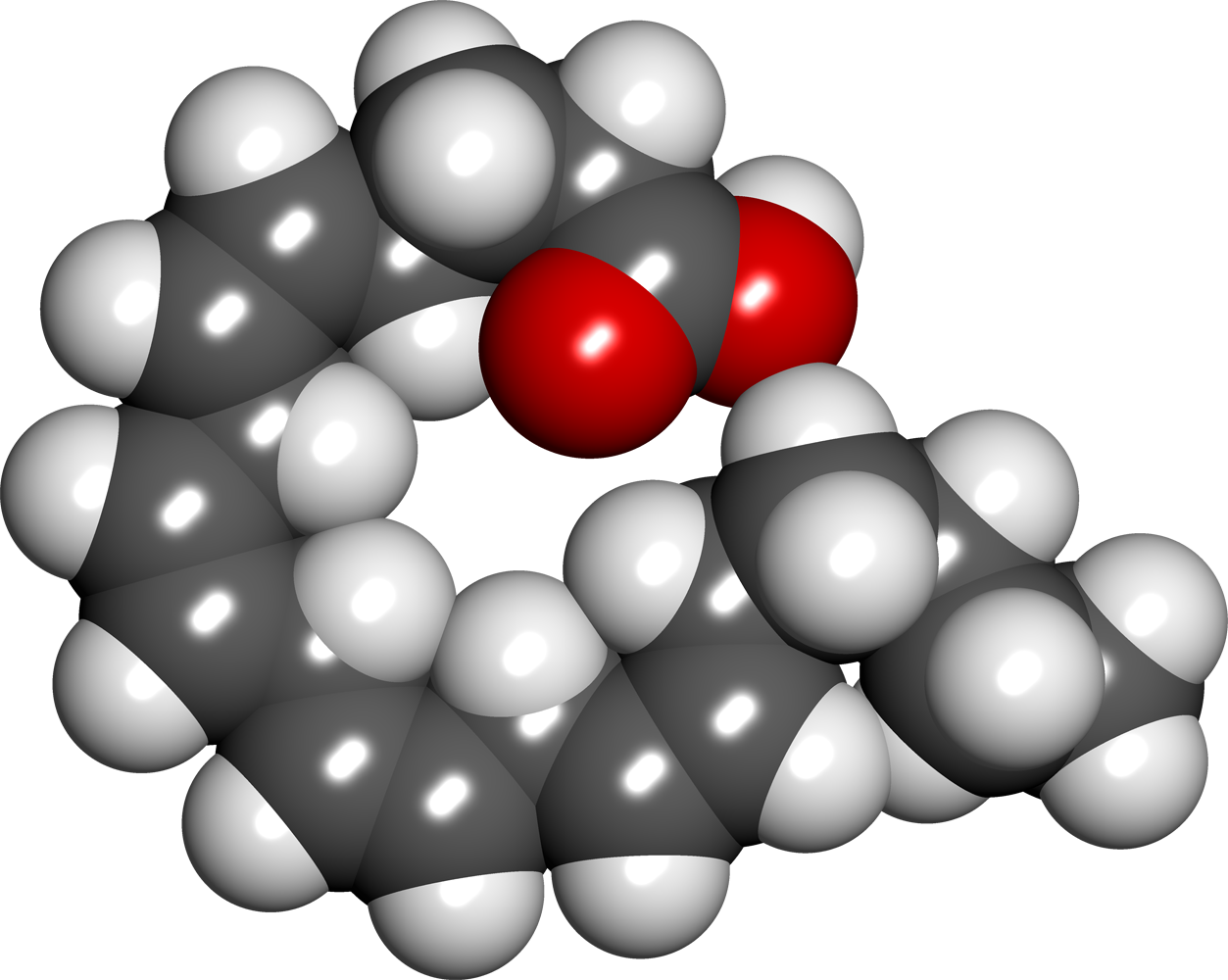 A space filling diagram of arachidonic acid.